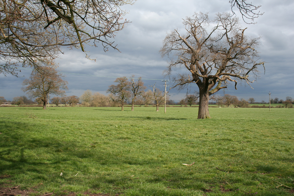 Farmland near Stoke Hall Farm, Stoke, Cheshire